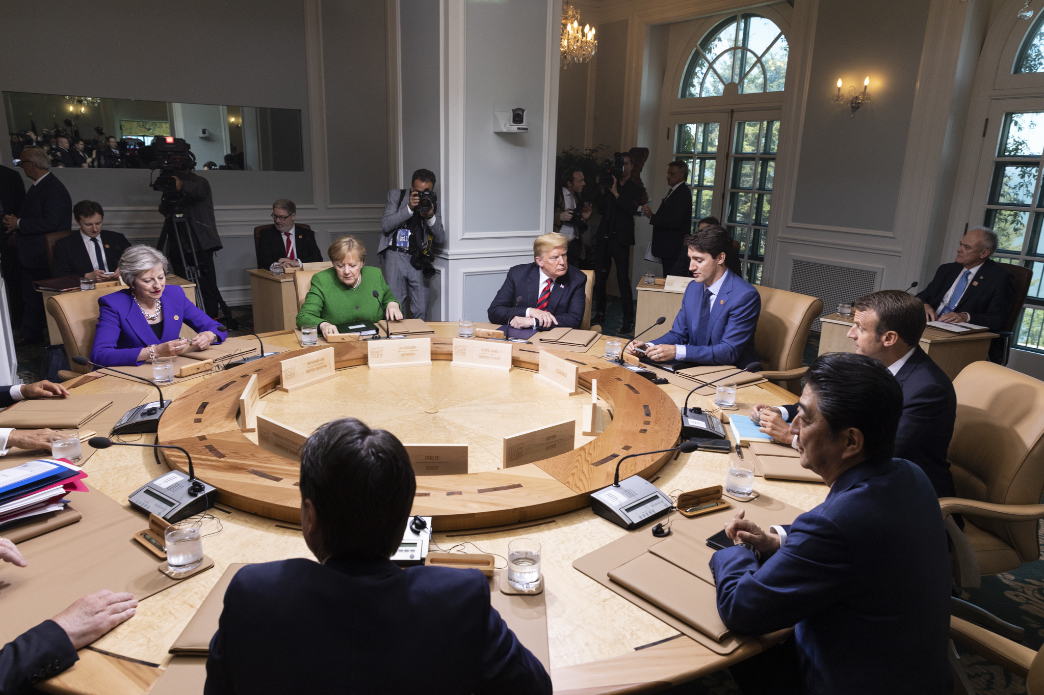 President Donald J. Trump at a working session at the G7 Summit; June 8, 2018 (Official White House Photo by Shealah Craighead)